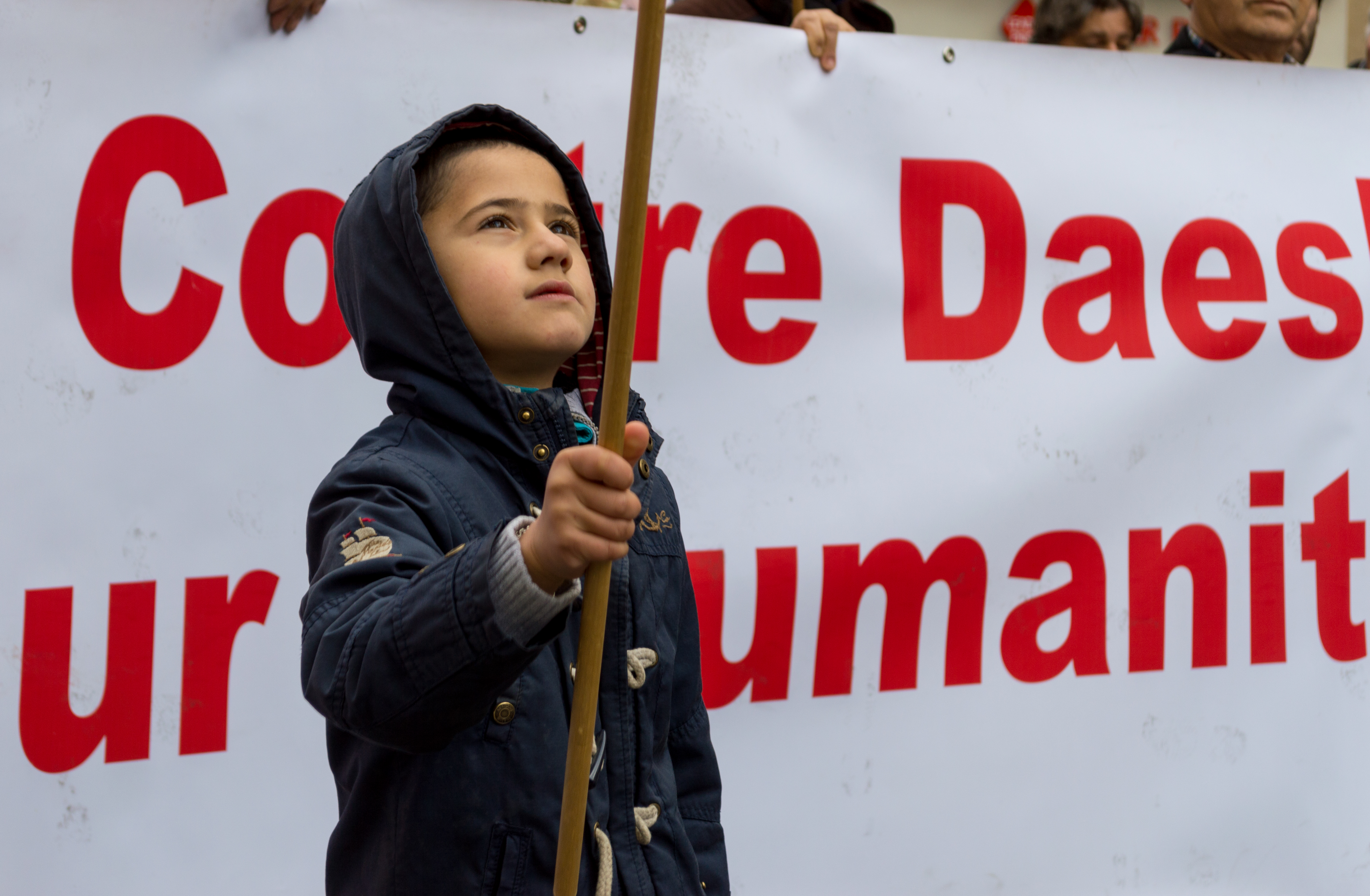 People take part in a silent walk to support freedom and peace and against barbarism, one week after the Paris attacks.